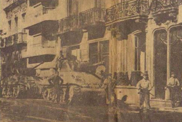 Argentina. 22nd September 1962. Battle between Blues and Reds (Azules y Colorados). Blue Tanks from Madgalena in Buenos Aires stopped at Brasil St. and Defensa St. Lezama Park.